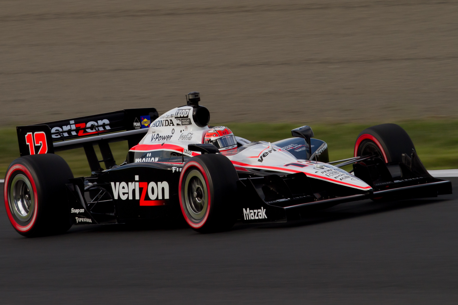 IndyCar Series 2011 Rd.15 Indy Japan 300: Will Power (Team Penske)